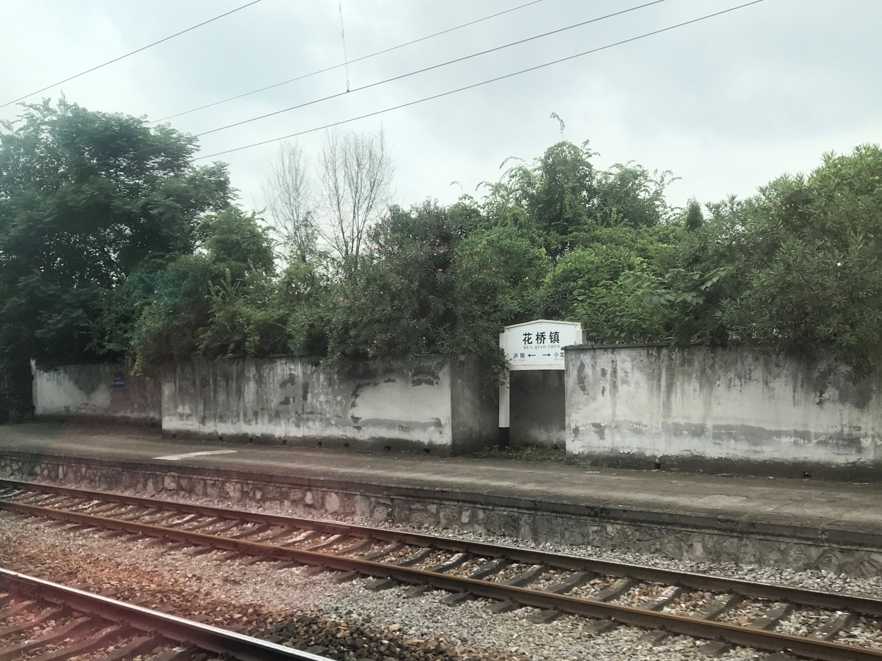 There is a Huaqiaozhen in Hunan besides Huaqiao Station in Jiangsu, Jiangxi and Fujian